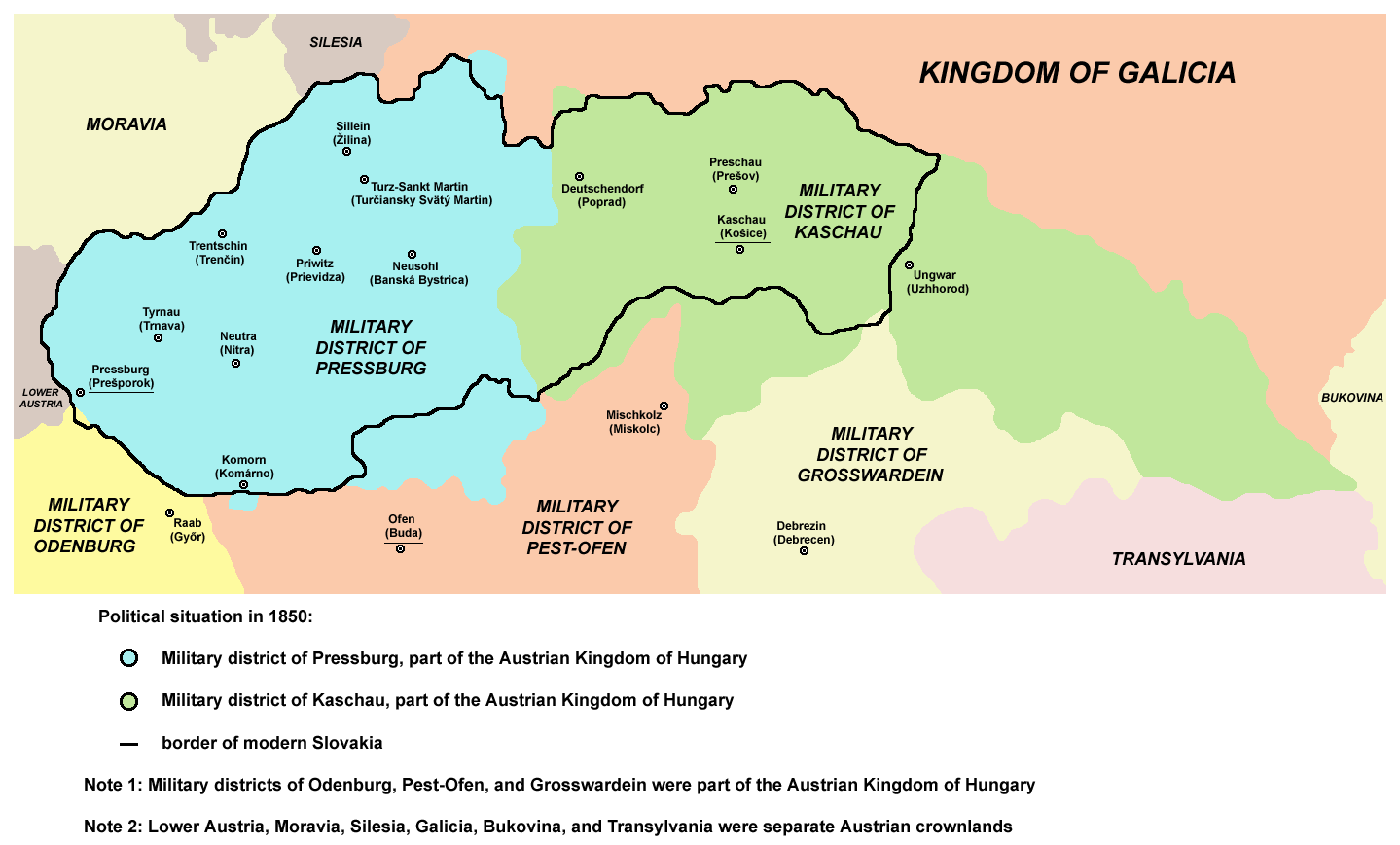 Military districts of Pressburg and Kaschau in the Austrian Kingdom of Hungary in 1850